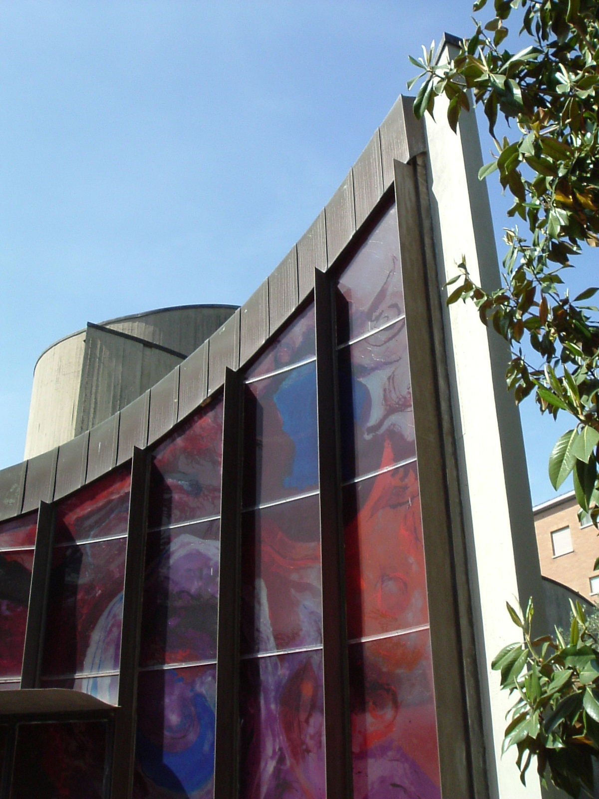 Exterior view of the chapel "Suore della Carità e dell’Immacolata Concezione di Ivrea", via di Val Cannuta 200, Roma, Italy. (Built 1971-73 by Silvio Galizia)